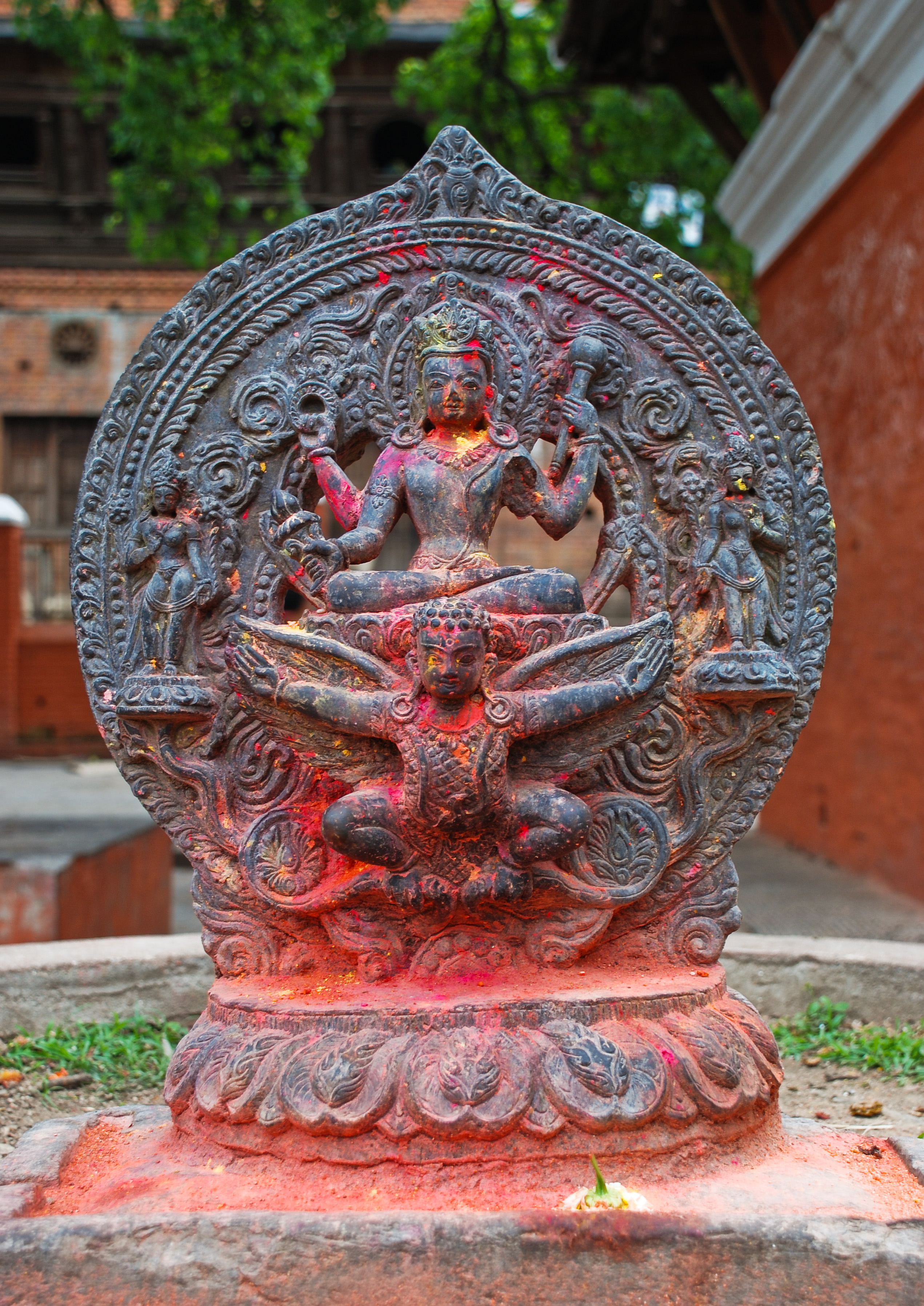 A statue of Vishnu riding on Garuda in Patan's Durbar Square, Nepal.